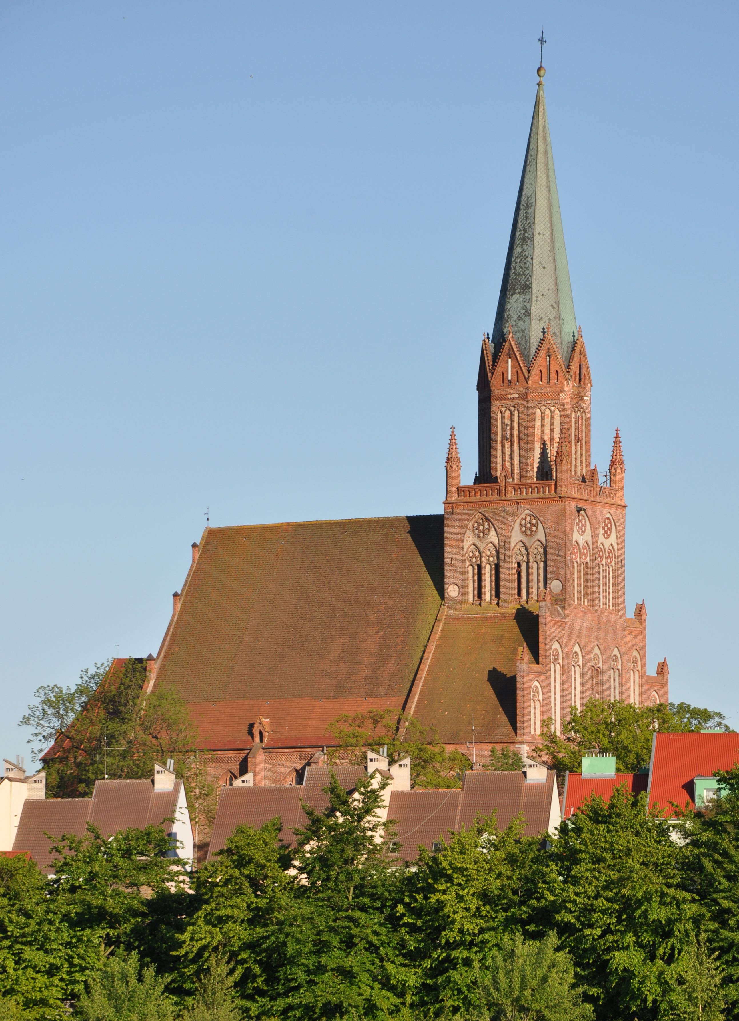 St. Mary's Maternity Roman Catholic Church in Trzebiatów, Poland